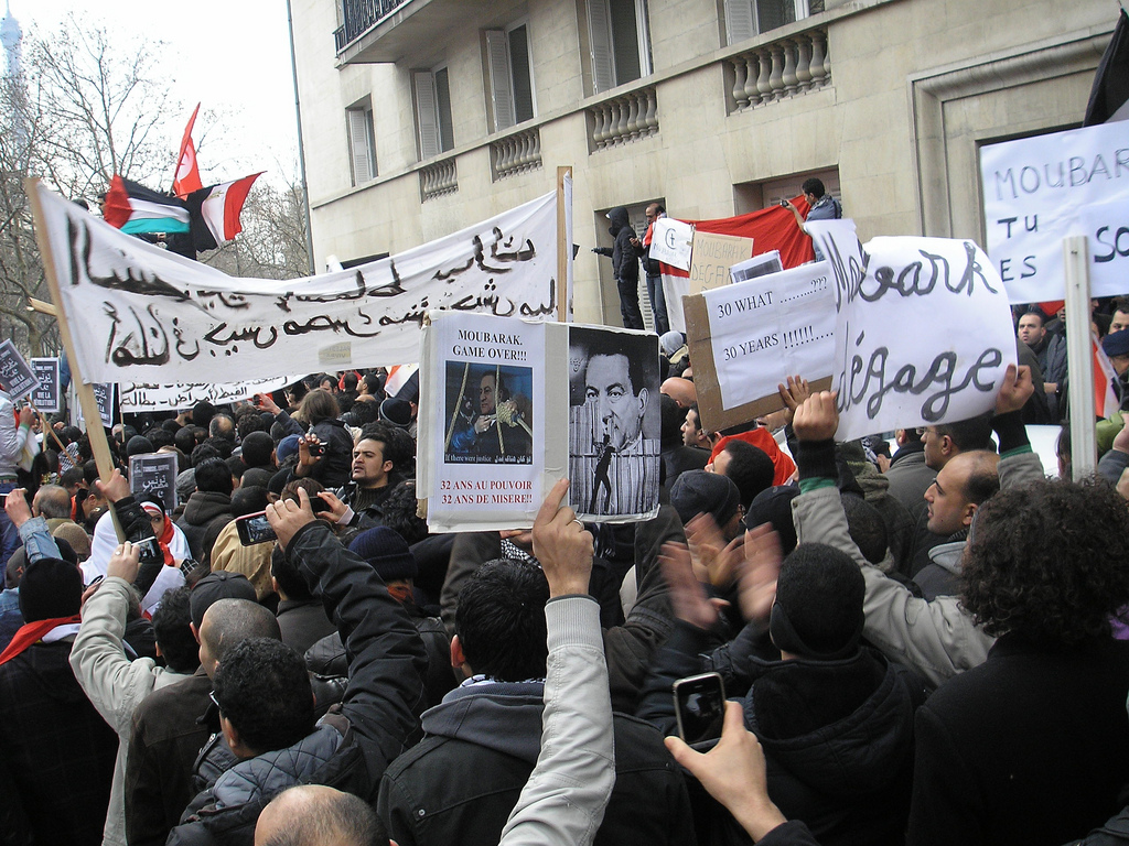 Solidarity protest near Embassy of Egypt in Paris, 29 January 2011.